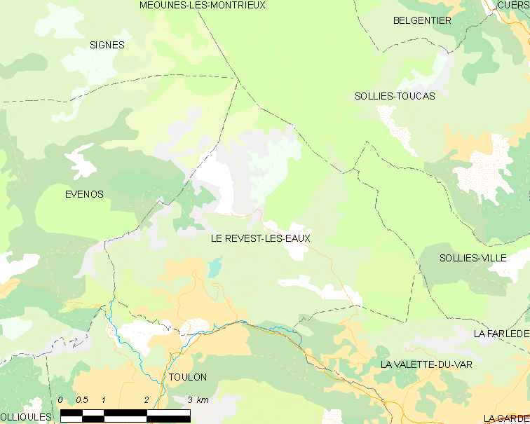 Map of French municipality Le Revest-les-Eaux